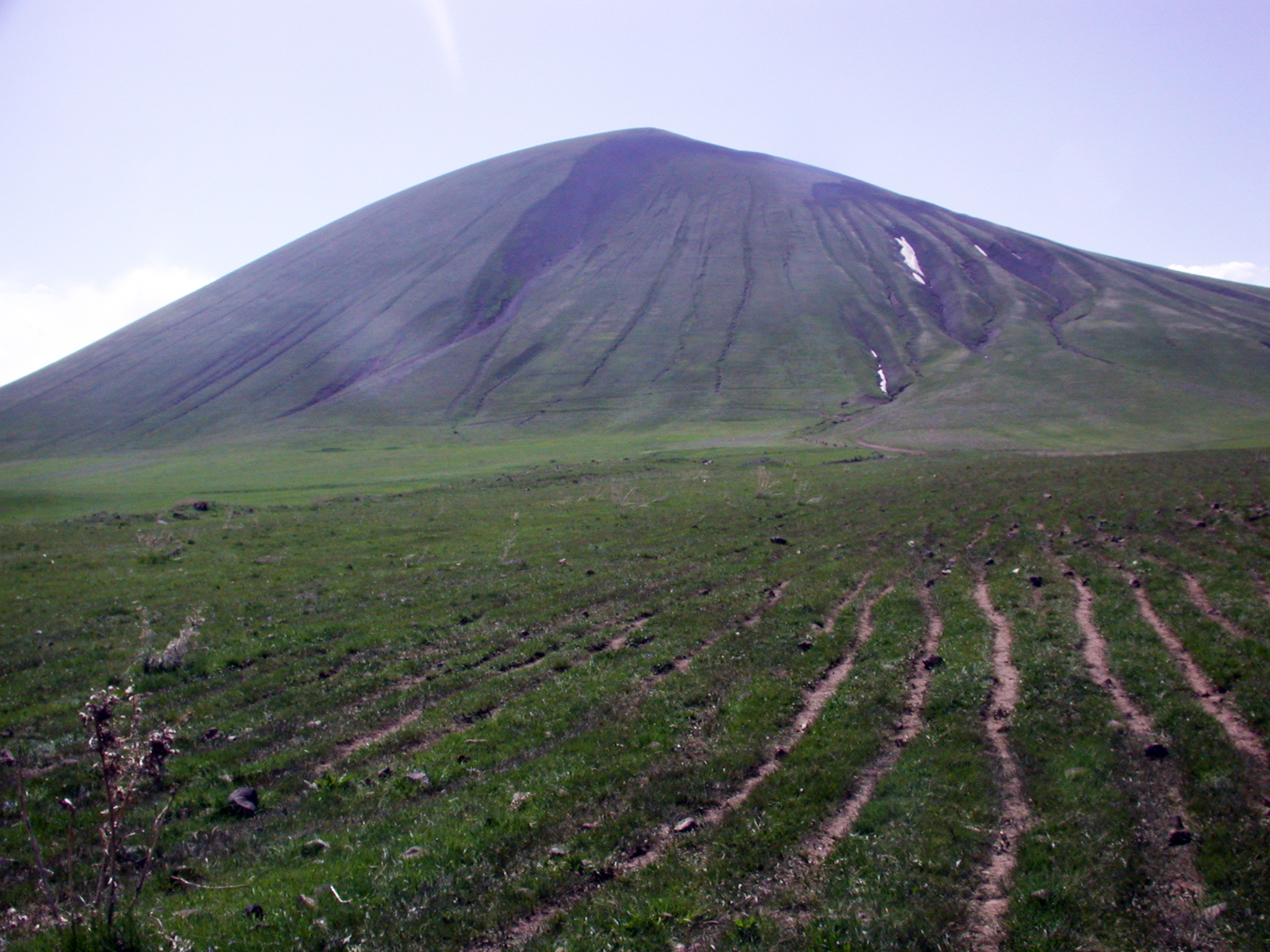 Mount Armaghan, Ghegam Ridge